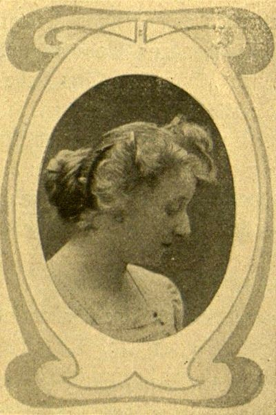 The author Elsa Porges-Bernstein, who wrote as "Ernst Rosmer", in a downward looking vignette portrait showing her famous profile (though never publicly acknowledged, everyone knew her grandfather was Franz Liszt); from a collection of photographic portraits by Fritz Abshoff published in Berlin in 1905